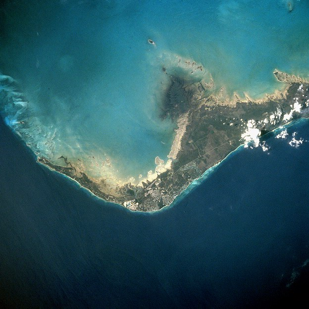 Grand Bahama Island, Bahamas - June 1998.